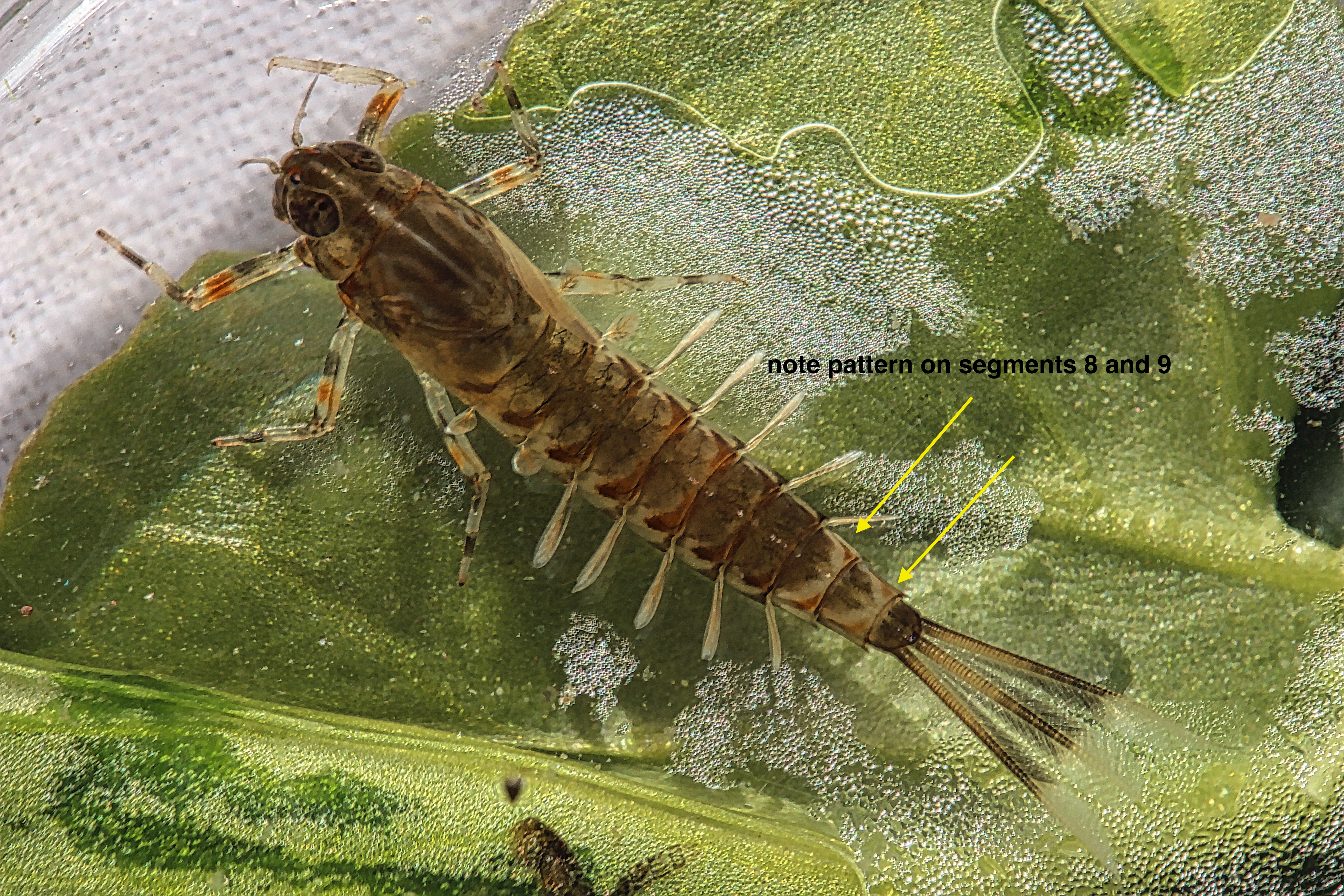 Montana. Species ID is tentative.